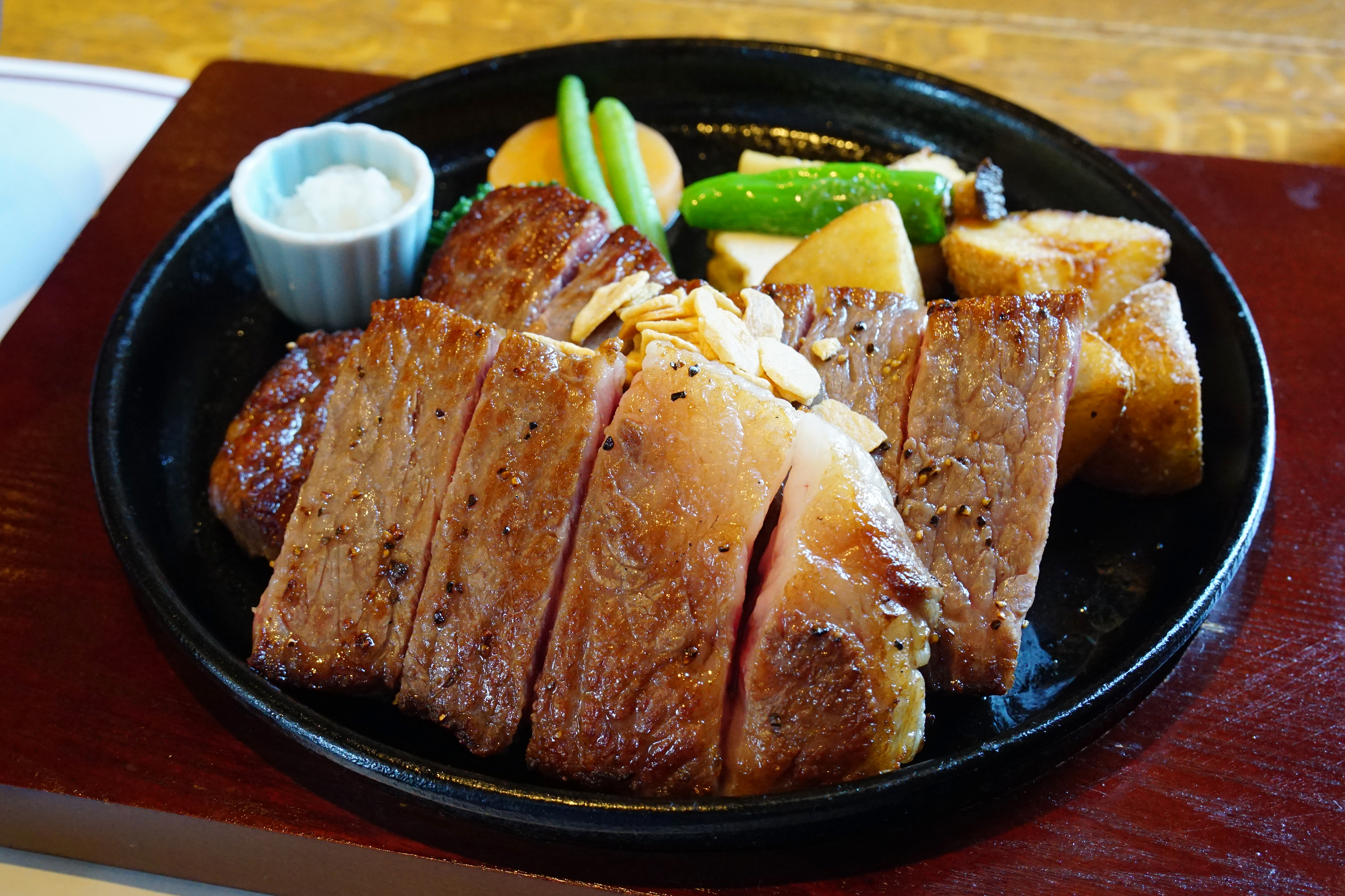 Awaji_beef steak at Sumoto, Hyogo prefecture, Japan.